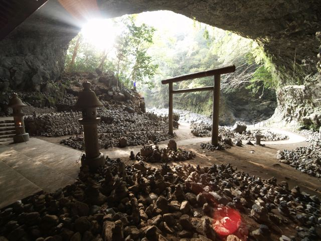 Takachiho, Miyazaki Pref., Japan